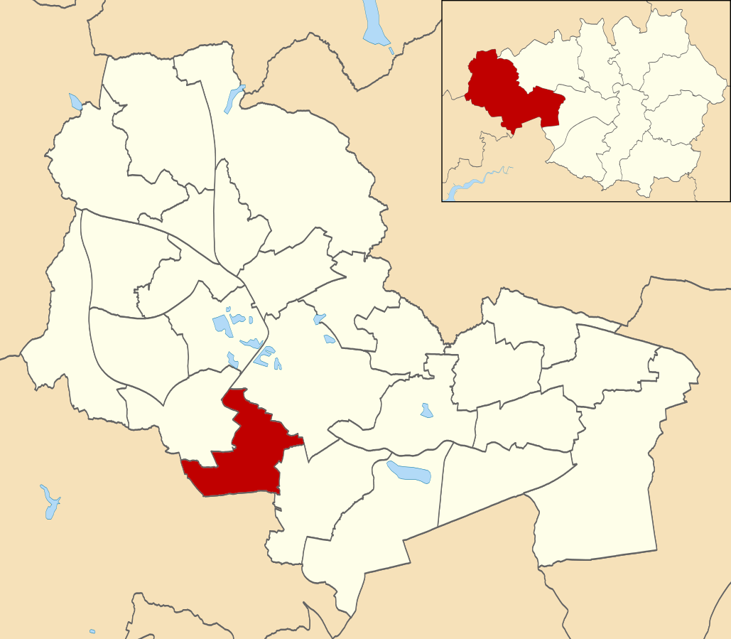 Map showing the location of Ashton ward within Wigan Metropolitan Borough Council